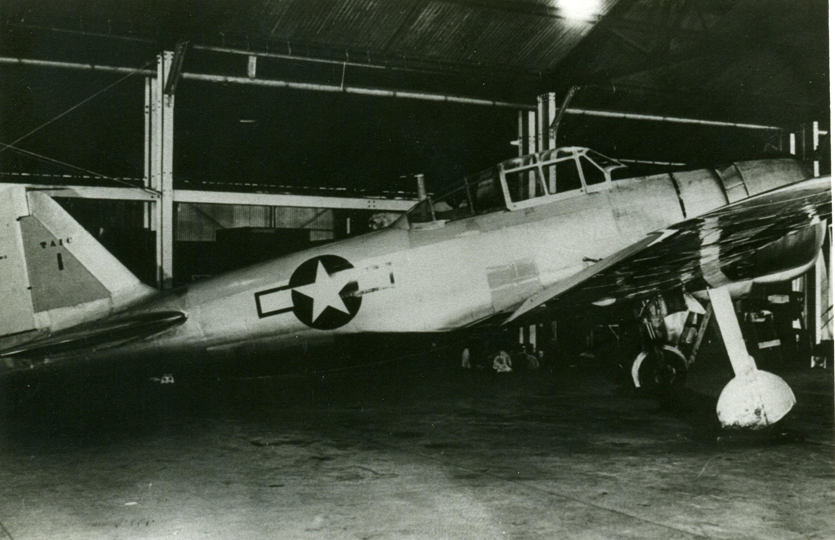 The Aleutian Japanese Zero in American Markings